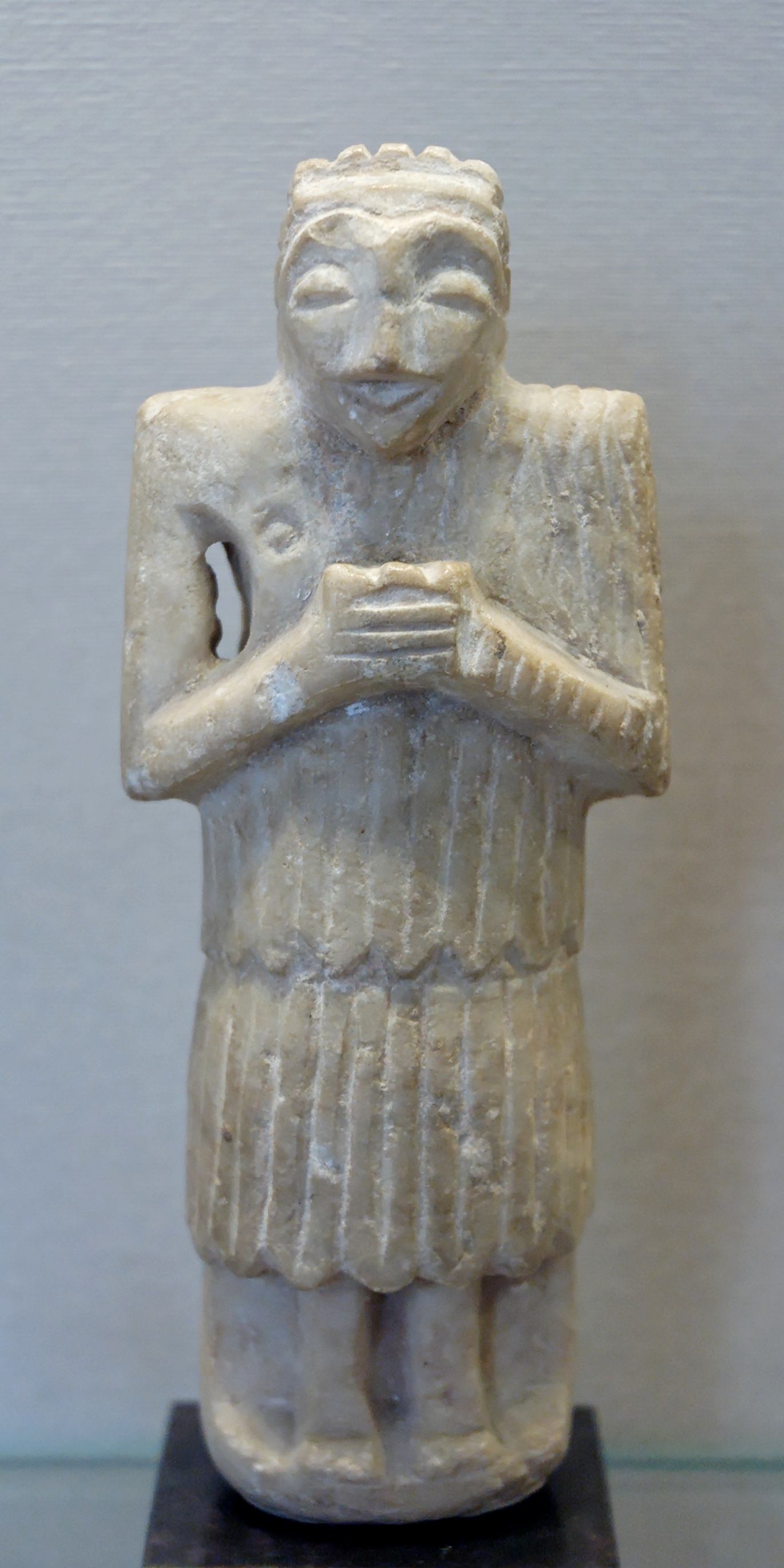 Orant figure, known as the "cubist orant".